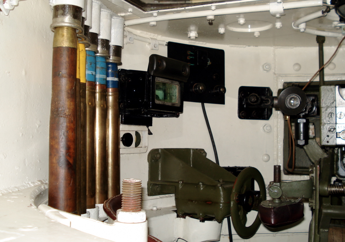 Soviet T-26 model 1933 tank, in Finnish markings, displayed in Finnish Tank Museum (Panssarimuseo) in Parola. This particular tank has been restored to drivable condition. View of turret interior. Photo taken on July 14, 2006. Source: Photo by me, User:Balcer.